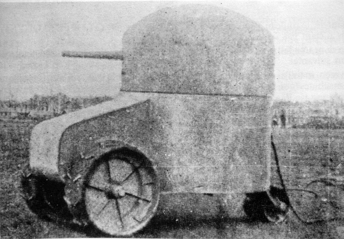 Fortin Aubriot Gabet